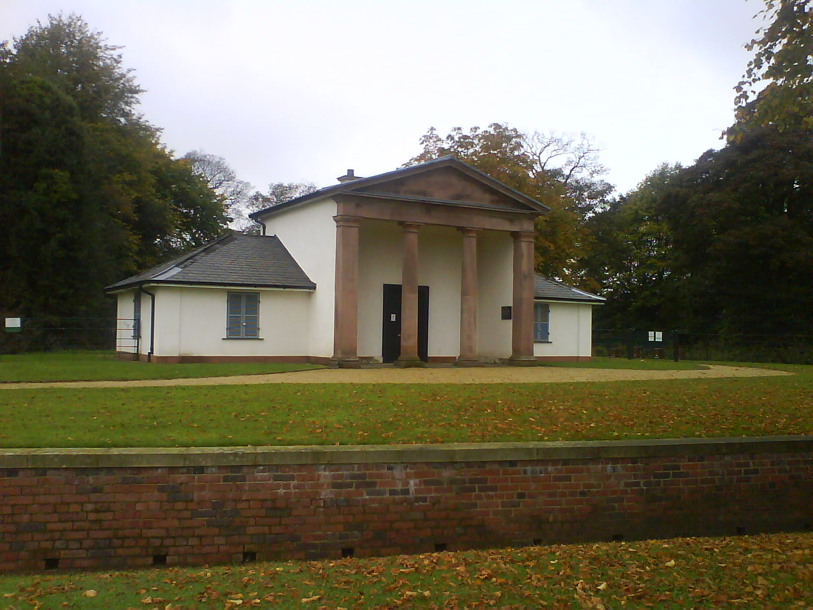 Dower House and the Ha-Ha in Heaton Park, Manchester, England.